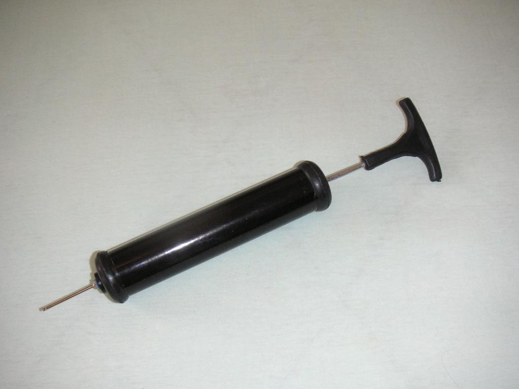 Air pump